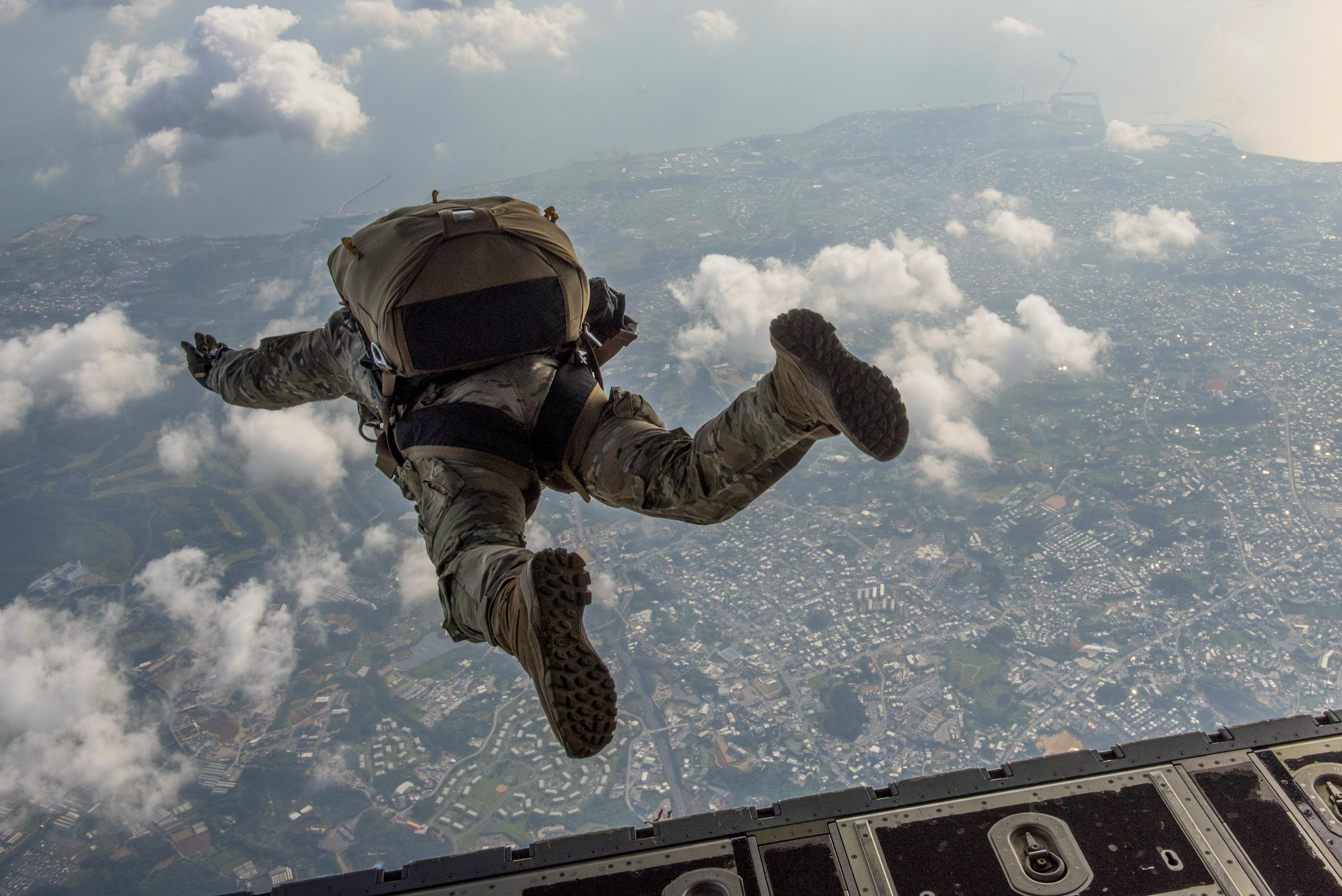 Airmen conduct a high altitude, low opening jump from a MC-130J Commando II April 24, 2017, above Okinawa, Japan. Kadena Air Base land and water drop zones are suited for multi-pass jump operations which maximize proficiency and limited resources. (U.S. Air Force photo/Senior Airman John Linzmeier)